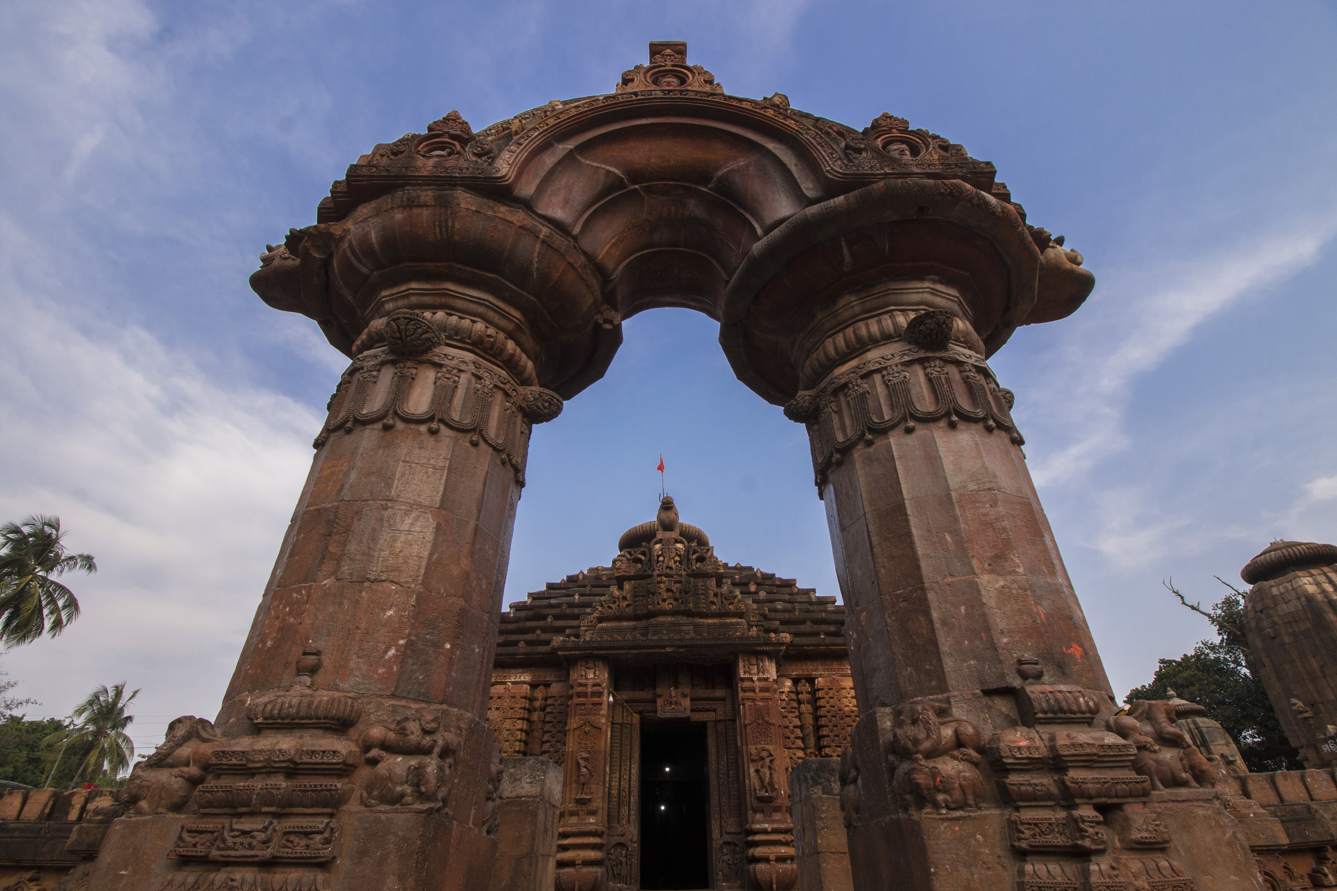 The decorated torana archway in front of the Jagamohana is a masterpiece dating from about 900 AD. It is a detached portal consisting of two pillars supporting an arch within a semicircular shaped pediment. The decoration of the arch, with languorously reclining females and bands of delicate scroll-work, is the most striking feature.